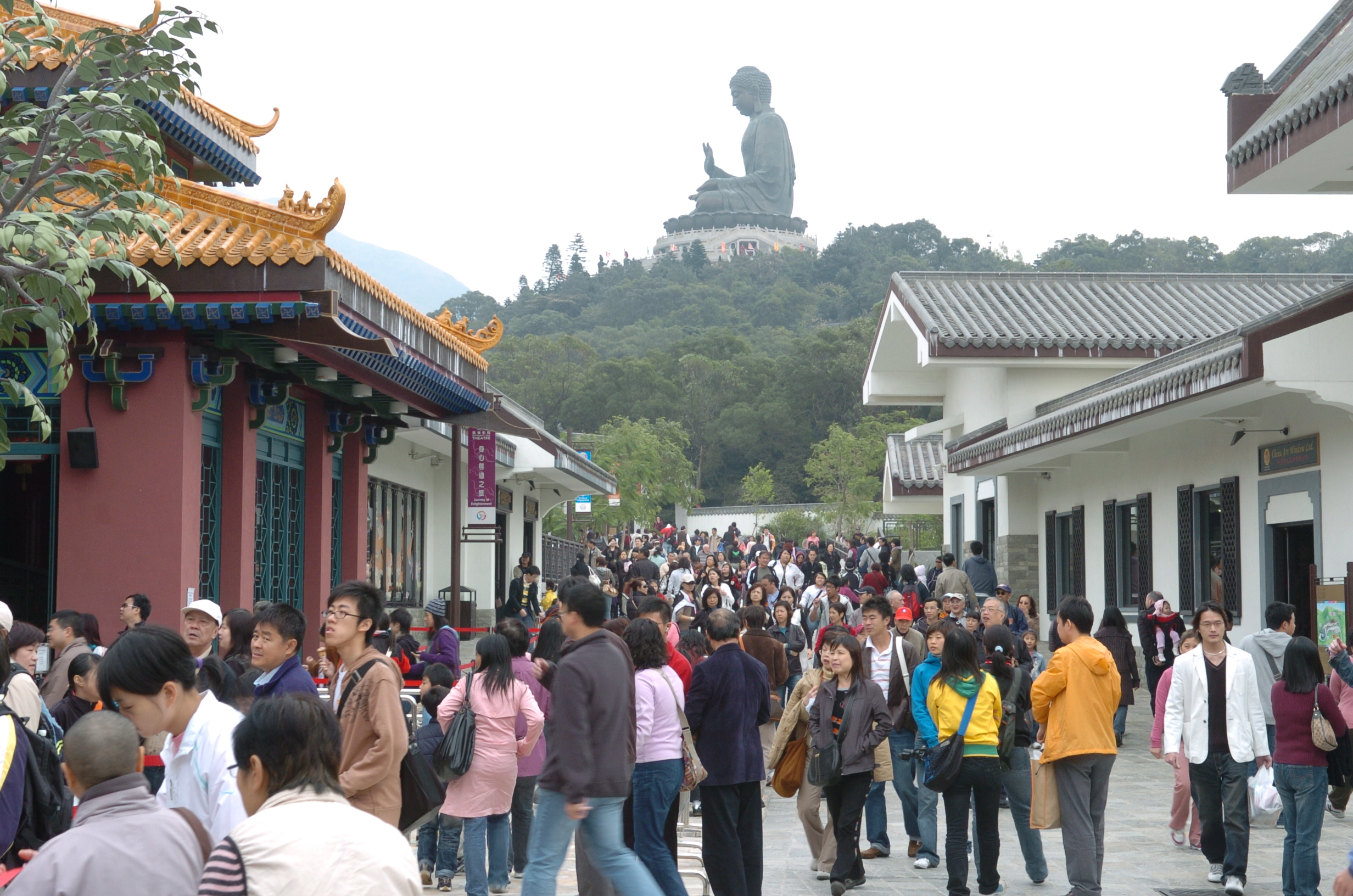 Ngong Ping Village